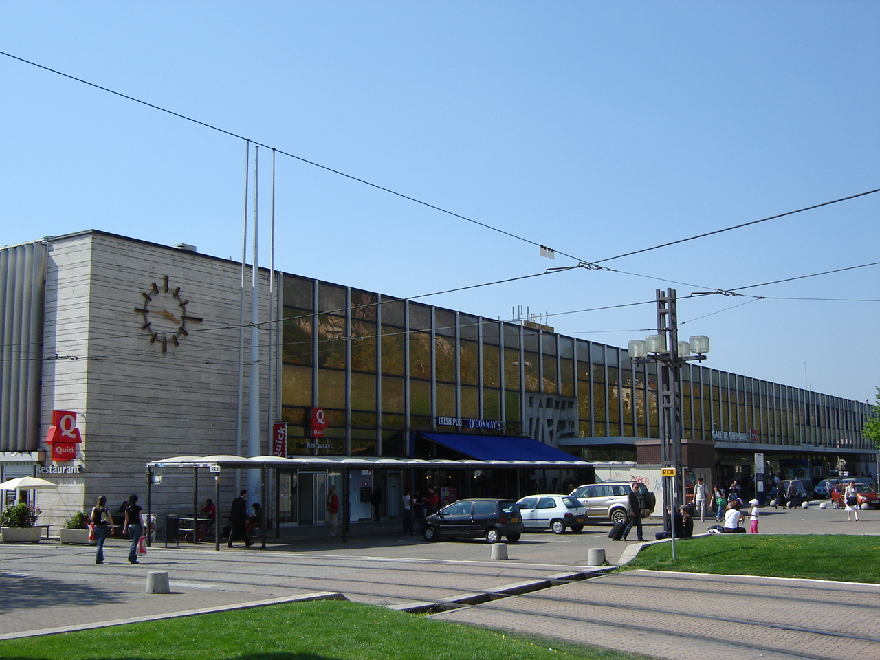 Train station, Grenoble, France